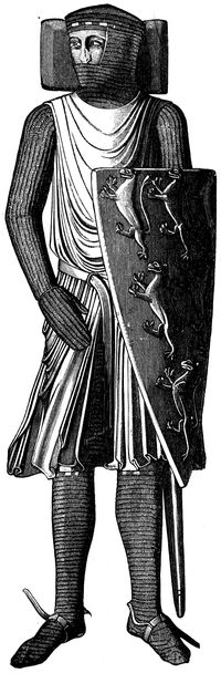 Effigy of William Longespée, Earl of Salisbury (died 1227); from his tomb in Salisbury Cathedral